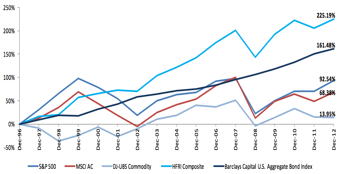 Line graph depicting performance of cumulative hedge fund and other risk asset returns, as measured by published indixes, 1997-2012.